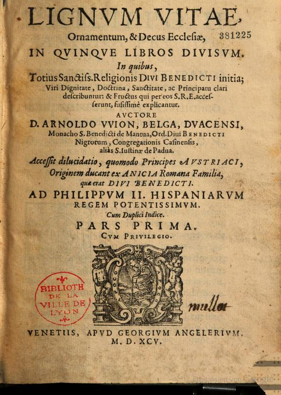 "Prophetia S.Malachiae Archiepiscopi, de Summis Pontificibus" from Arnold Wion: Lignum vitae, ornamentum et decus Ecclesiae..., Vol. 1, Venetia 1595, front page